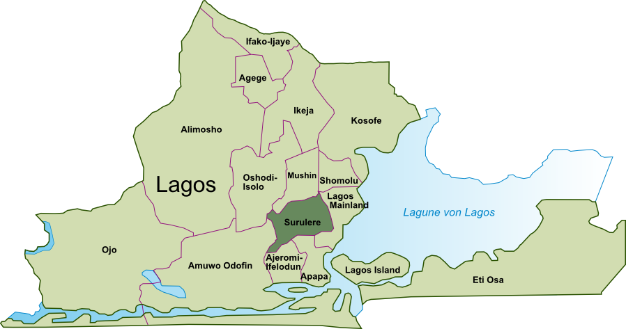 Map of the Local Governement Areas of Lagos; Surulere highlighted